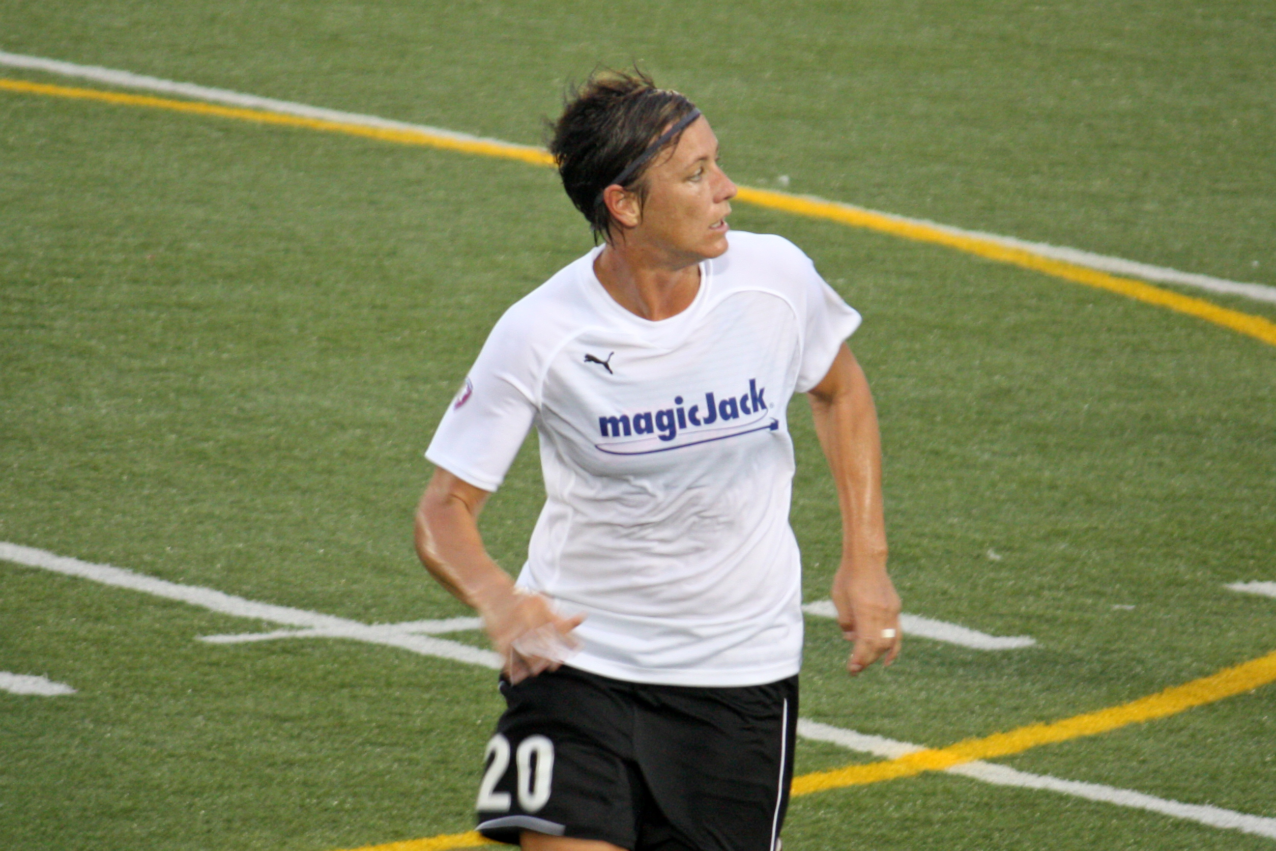 Abby Wambach in the first half of magicJack's 2-0 win over the Boston Breakers, Saturday, August 6 at Harvard Stadium in Boston, Mass.